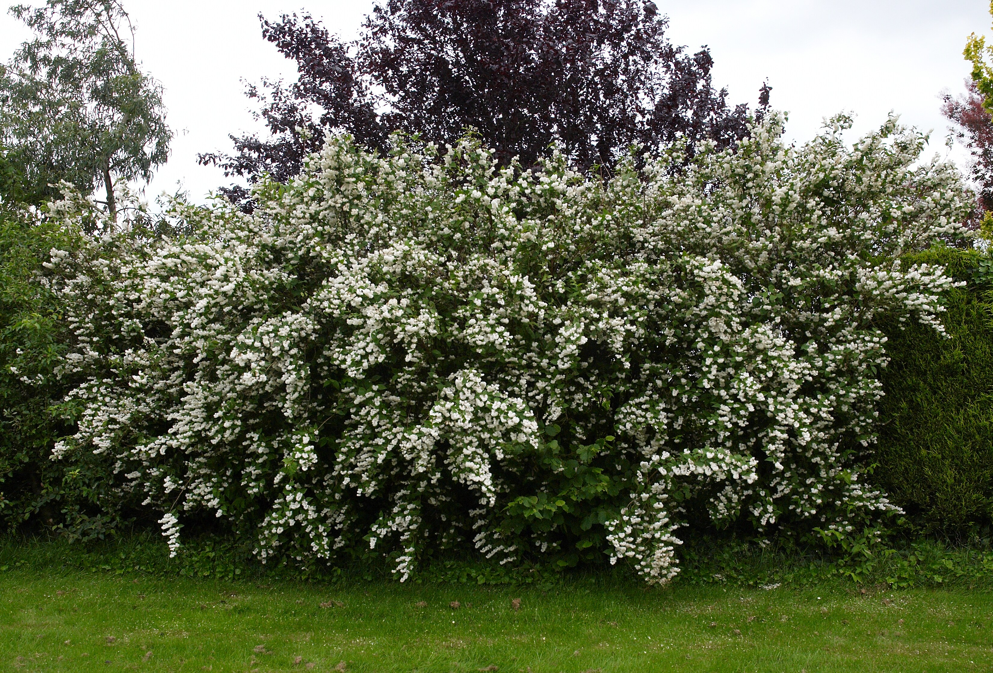 Deutzia scabra Other photos of the same bush of about 3 m high